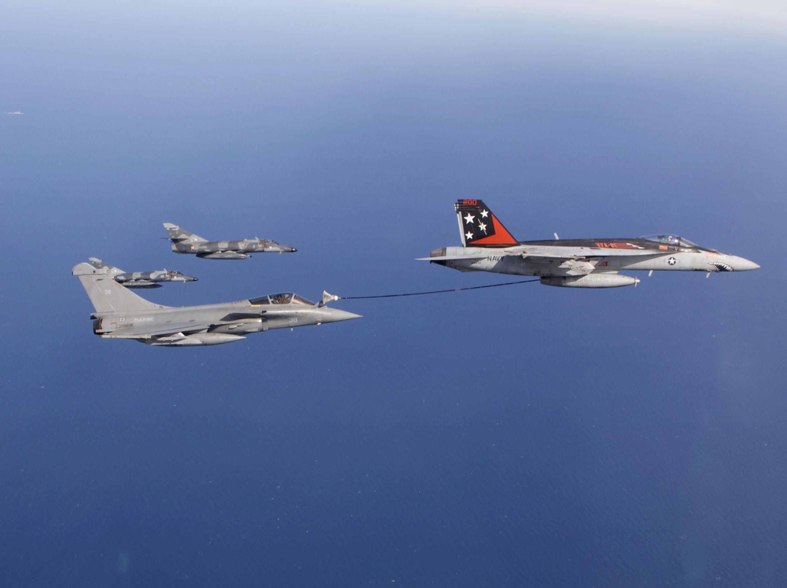 A French Dassault Rafale M aircraft from the French Marine Nationale aircraft carrier Charles de Gaulle (R91) refuels from a U.S. Navy Boeing F/A-18E Super Hornet from Strike Fighter Squadron (VFA) 81 "Sunliners" from the aircraft carrier USS Carl Vinson (CVN-70) over the Arabian Sea. VFA-81 was assigned to Carrier Air Wing 17 (CVW-17) aboard the Carl Vinson, supporting maritime security operations, strike operations in Iraq and Syria as directed, and theater security cooperation efforts in the U.S. 5th Fleet area of responsibility.